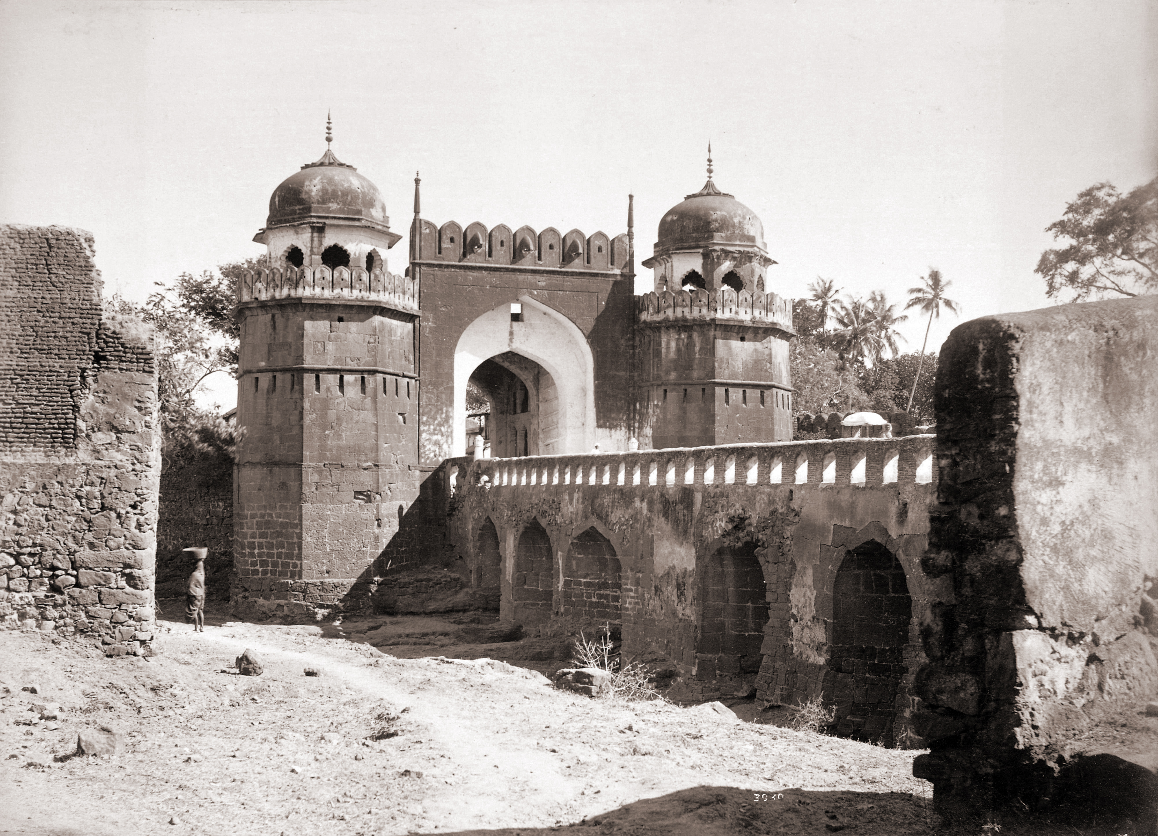 Photograph of the Mecca gate and bridge at Aurangabad, Maharashtra, Curzon Collection: 'Views of HH the Nizam's Dominions, Hyderabad, Deccan, 1892', taken by Deen Dayal in the 1880s. Aurangabad is situated on the Khan river in the Dudhana valley between the Lakenvara Hills and the Sathara range. Originally known as Khadke, Aurangabad city was founded in the early 17th century by Malik Amber, minister of the Nizam Shah Kings of Ahmadnagar. However, in 1637 the city was incorporated in the Mughal empire. In 1681-2 the Mughal Emperor Aurangzeb (r.1658-1707) moved his court to Aurangabad and used it as the base for his military campaigns in the Deccan. After Aurangzib's death in 1707 the city was renamed in his honour. The city walls were built by Aurangzeb in 1682, designed to deter Maratha attacks. There were nine smaller gates and four principle gates: the Delhi Gate on the north; Jalna on the east; Pathan on the south; and Mecca on the west.